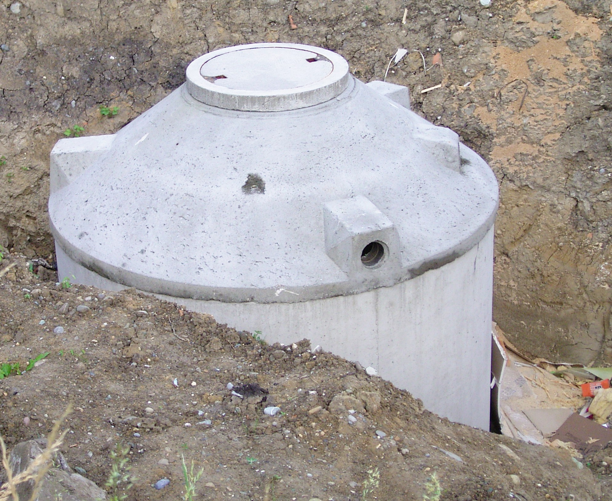 A underfloor cistern